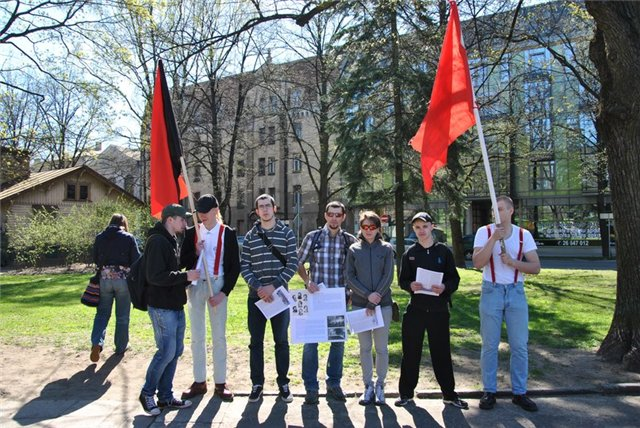 Latvian members of a group affiliated with the International Union of Anarchists